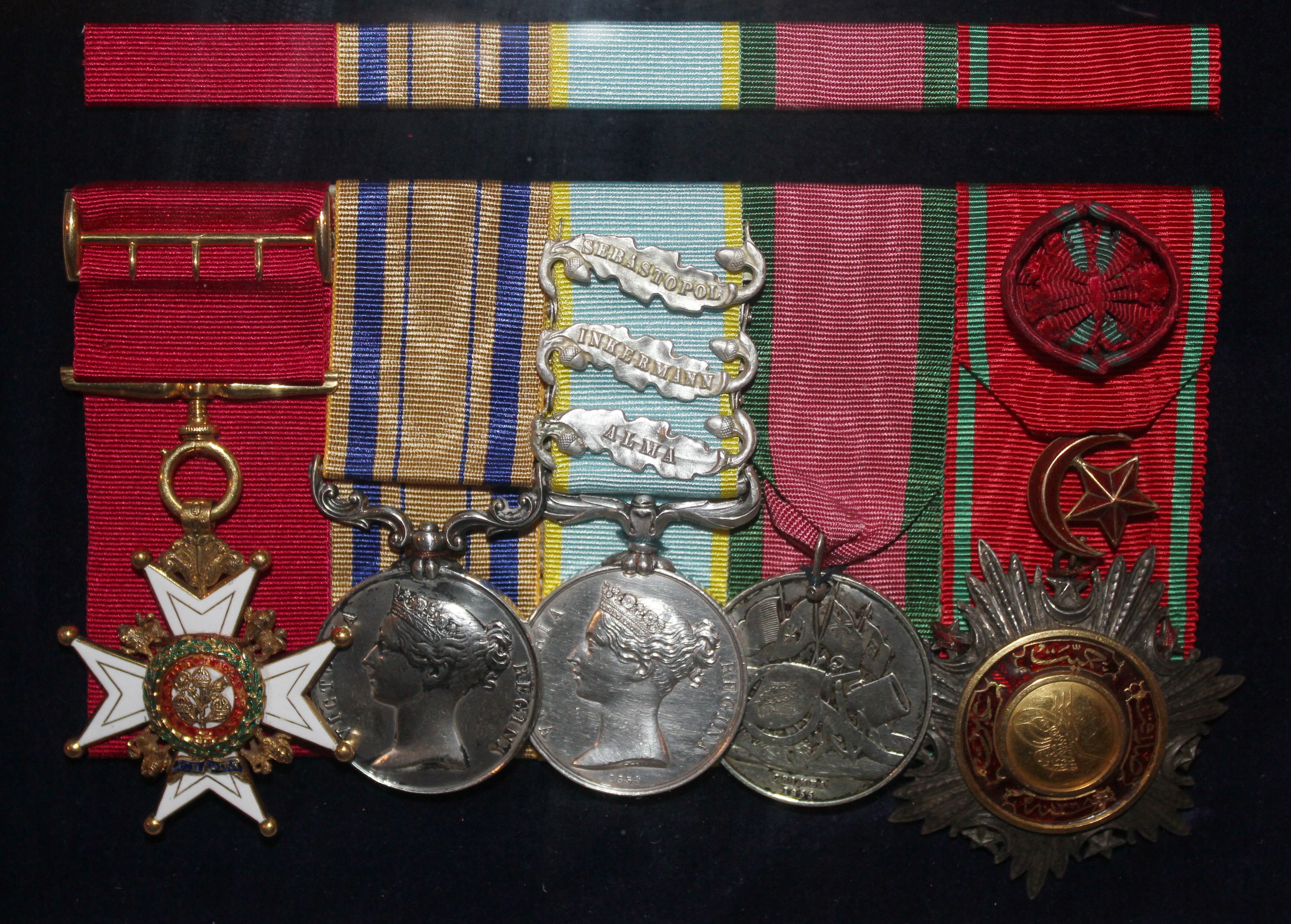 Medals awarded to Dr John Forrest including CB, South Africa Medal, Crimea Medal, Turkish Crimea Medal, and 4th Class Order of the Medjidie